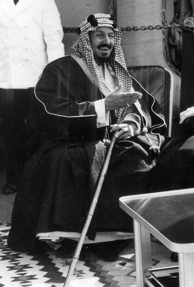 Ibn Saud, first monarch and founder of Saudi Arabia, in 1945